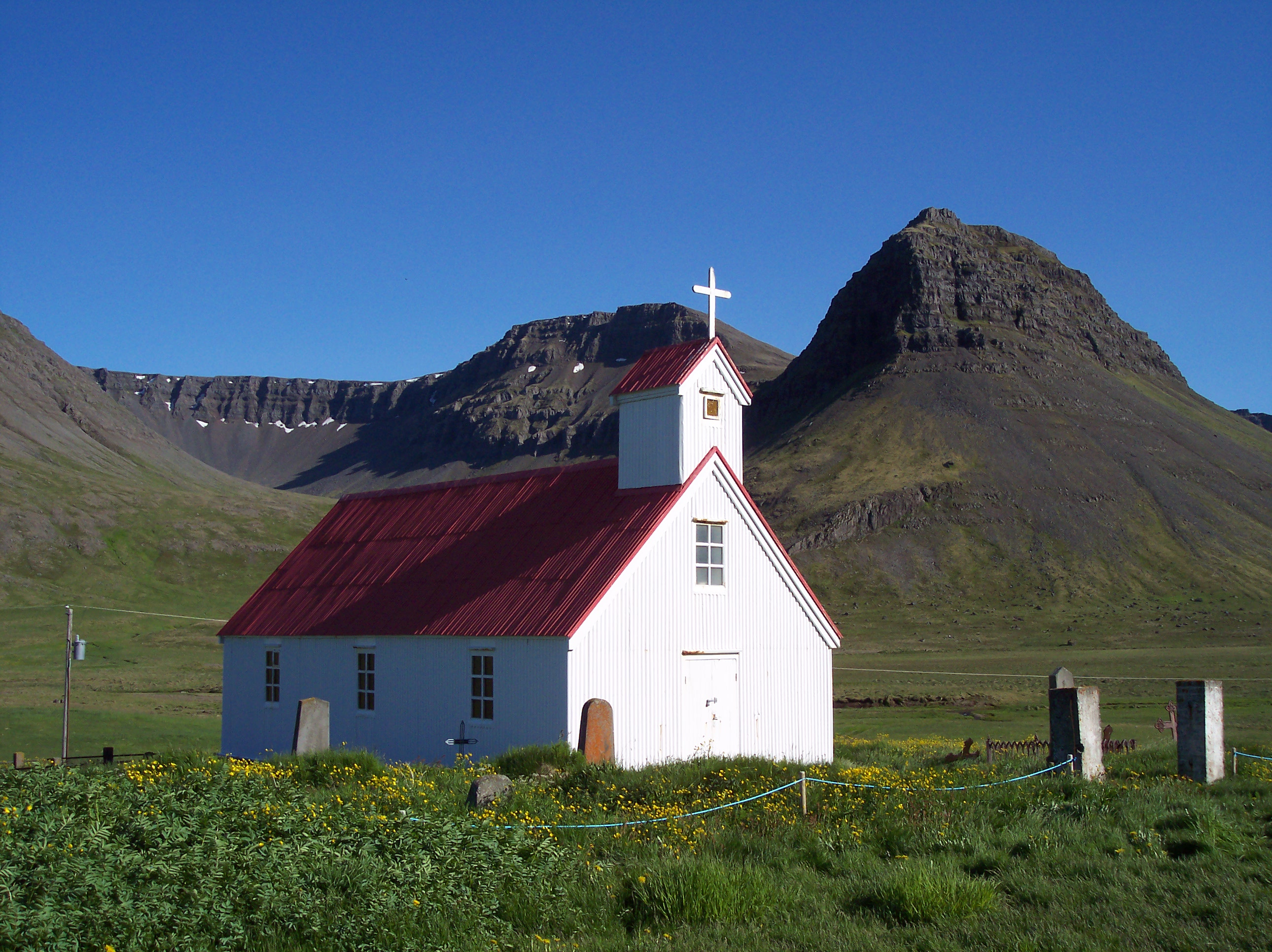 The church in Selárdalur, Vestubyggð, Iceland